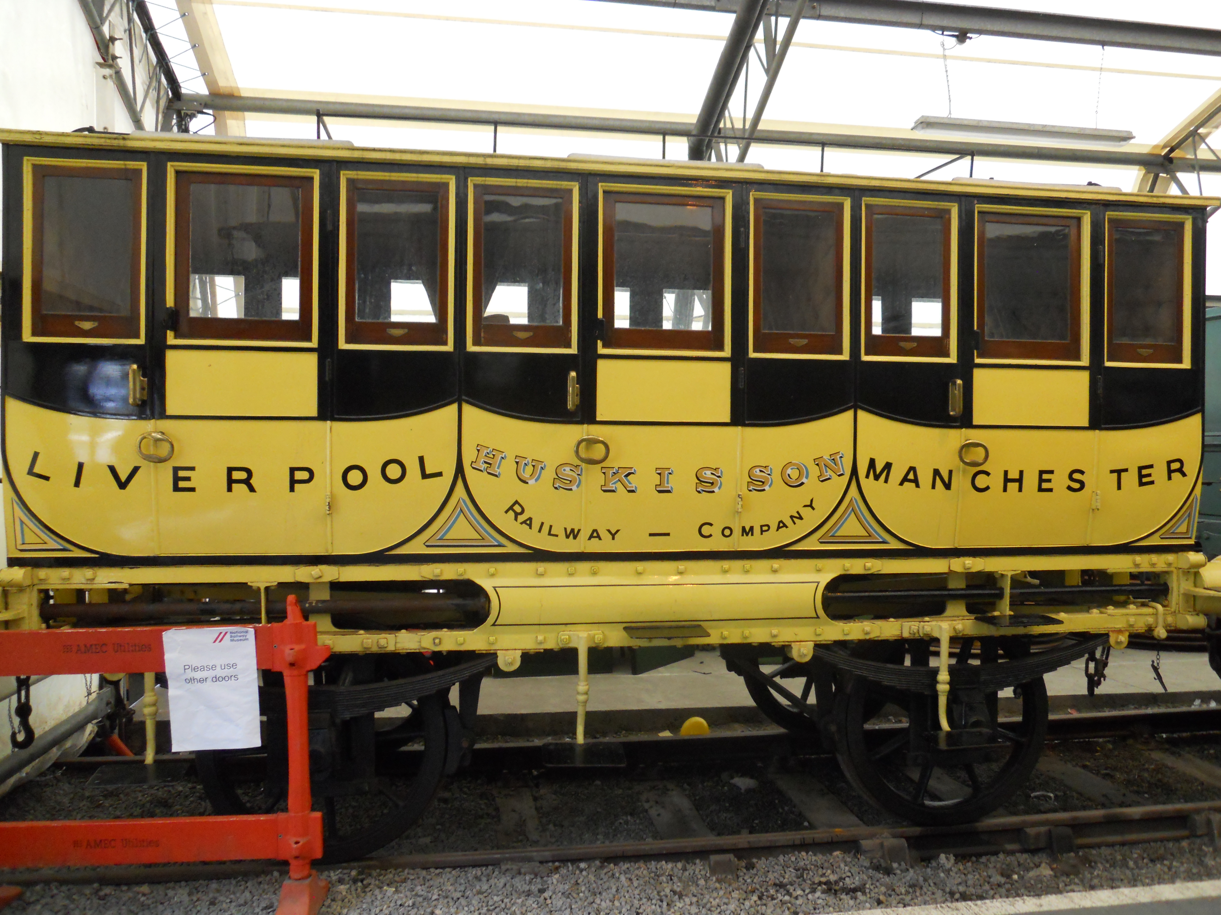 A replica of a 1st Class Coach built in 1930, based on a coach built in 1834. Picture this in the Northern Rail or First TransPennine Express livery!! Taken on Saturday 7th April at the National Railway Museum in York